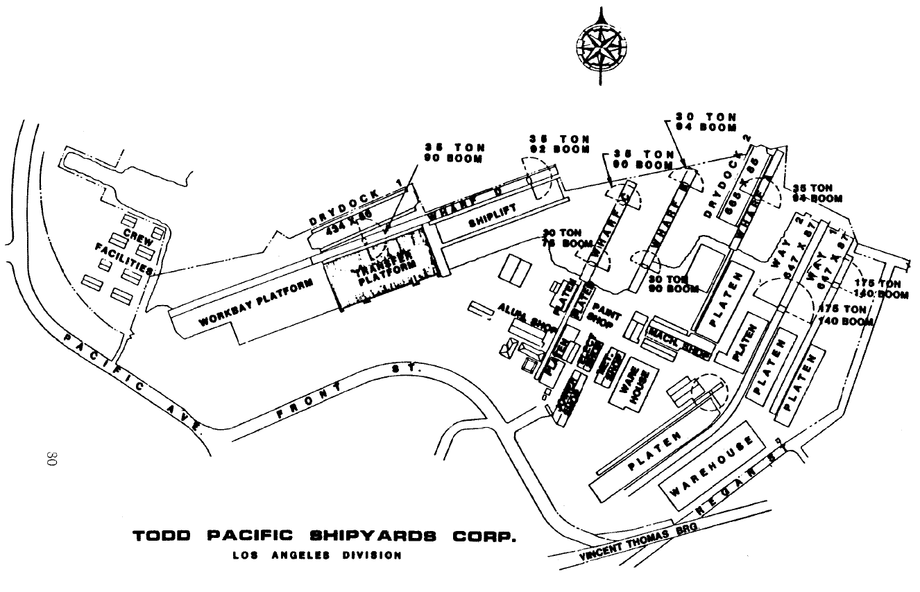 Todd Pacific Shipyards, Los Angeles Division, c.1983